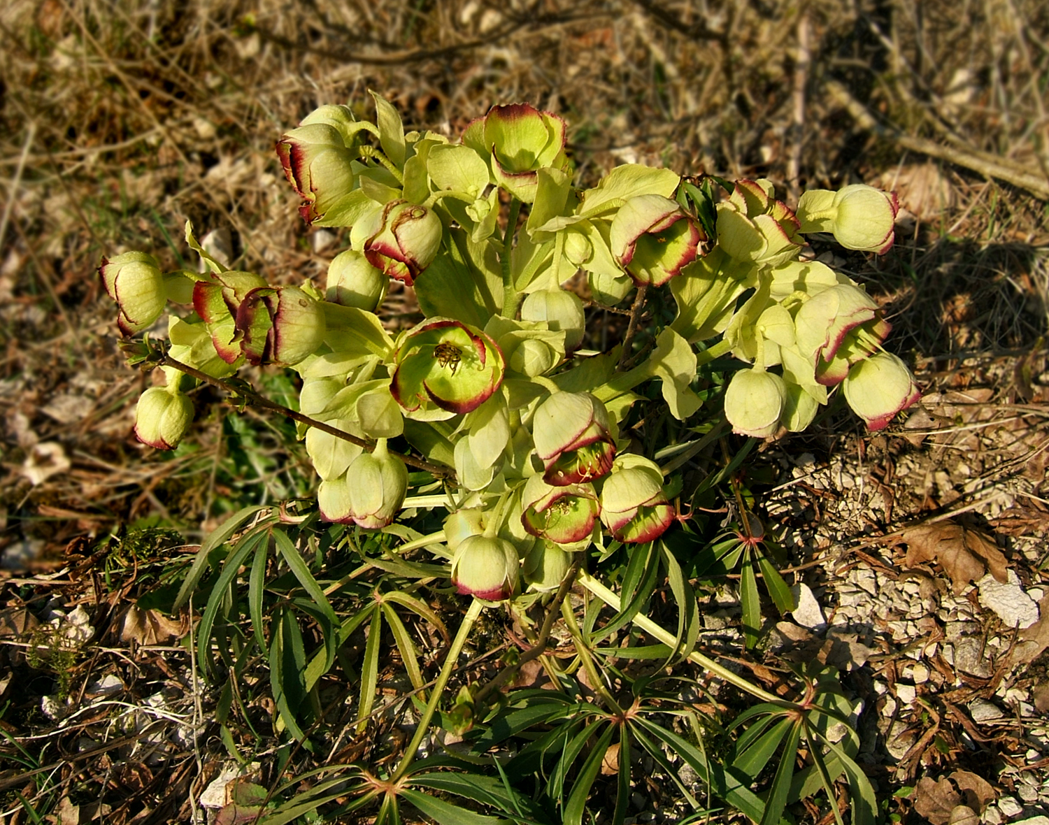 Stinking Hellebore Helleborus foetidus, located at 850/900 m, Swabian Alb, Baden-Württemberg, Germany. Wild species, no cultivators in sight. Aragonés: Ixarruego